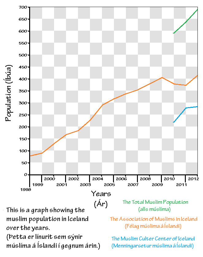 This is a graph showing the muslim population in Iceland over the years.